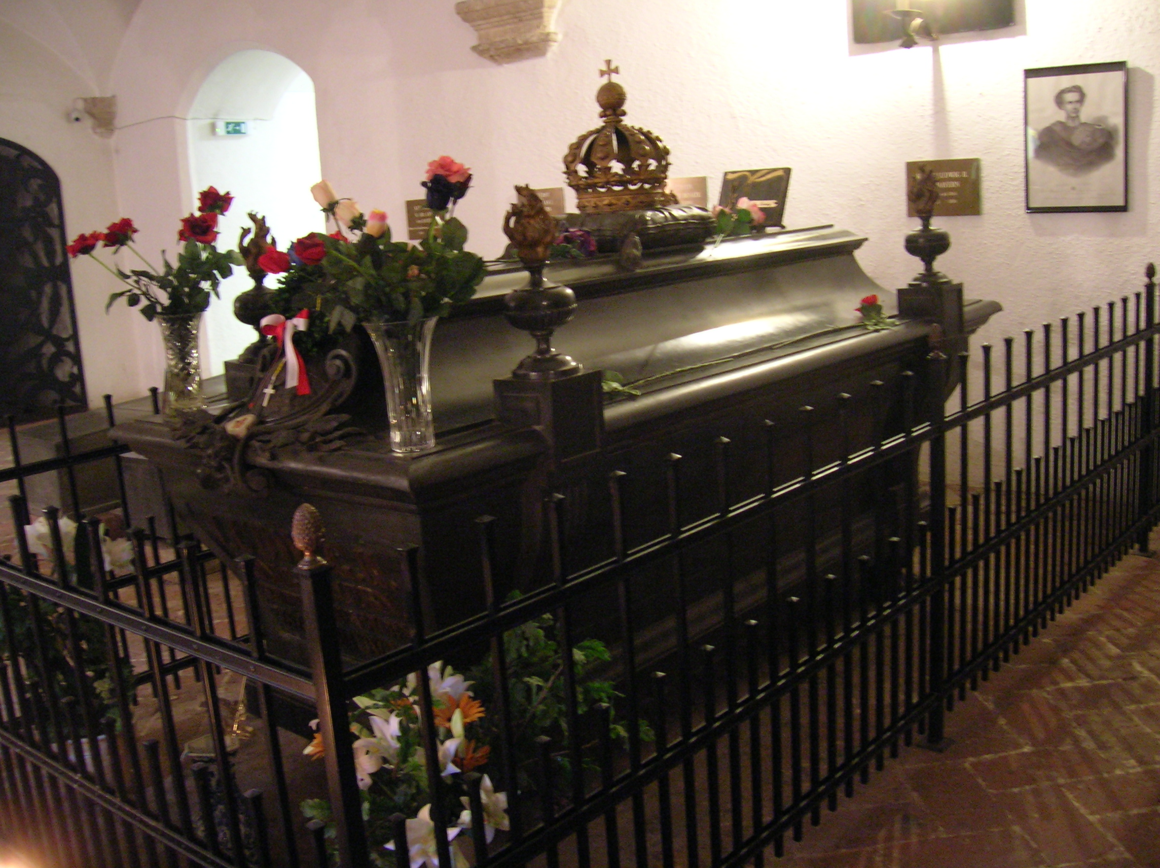 Crypt of King Ludwig II of Bavaria, beneath Michaelskirche, Munich